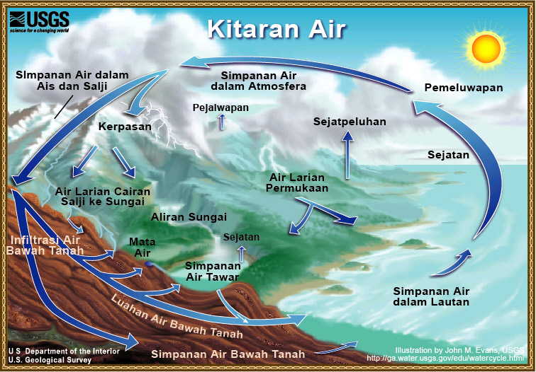 Water-Cycle Diagram (Malay)